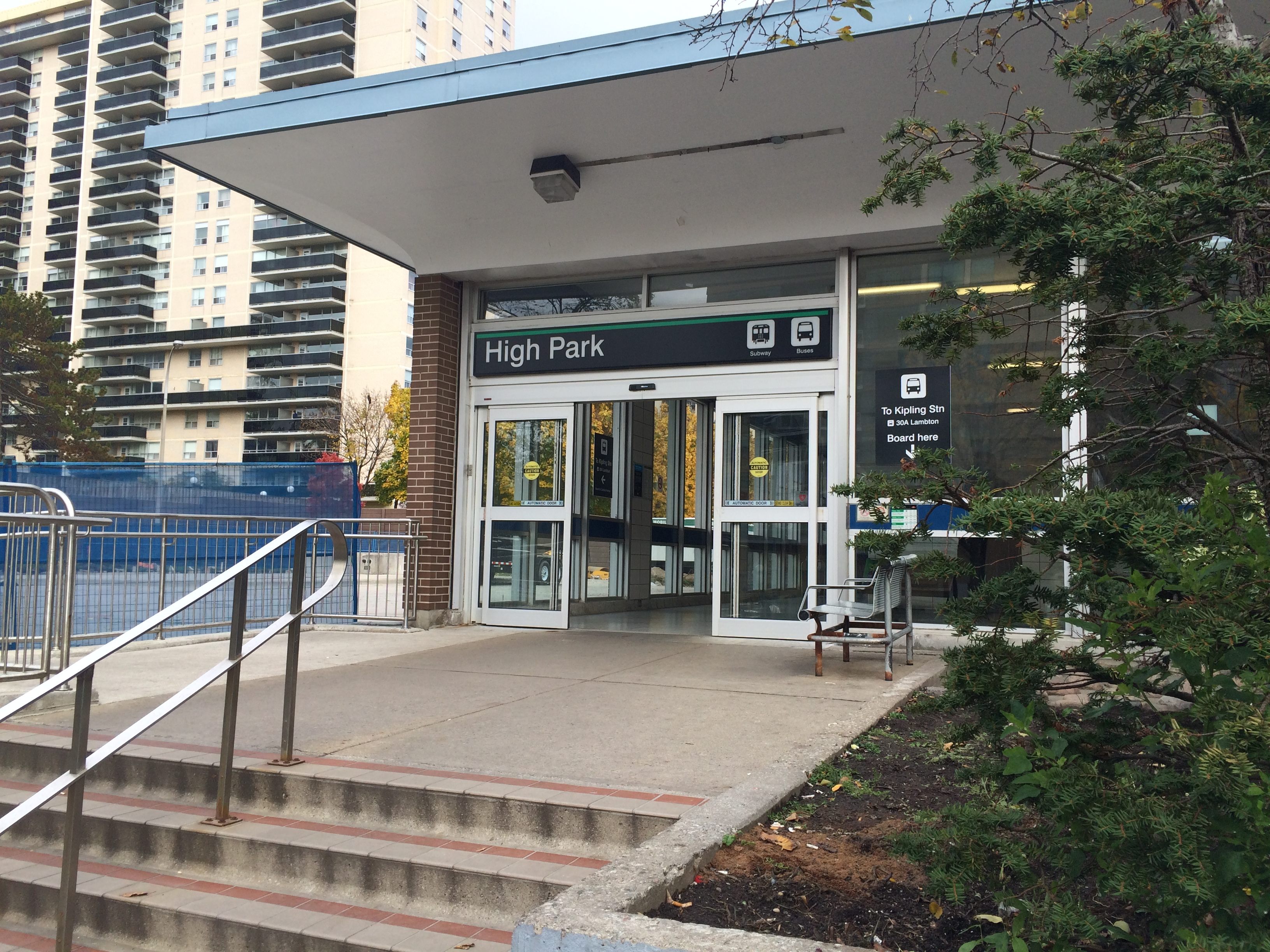 High Park TTC station. Street level entrance.